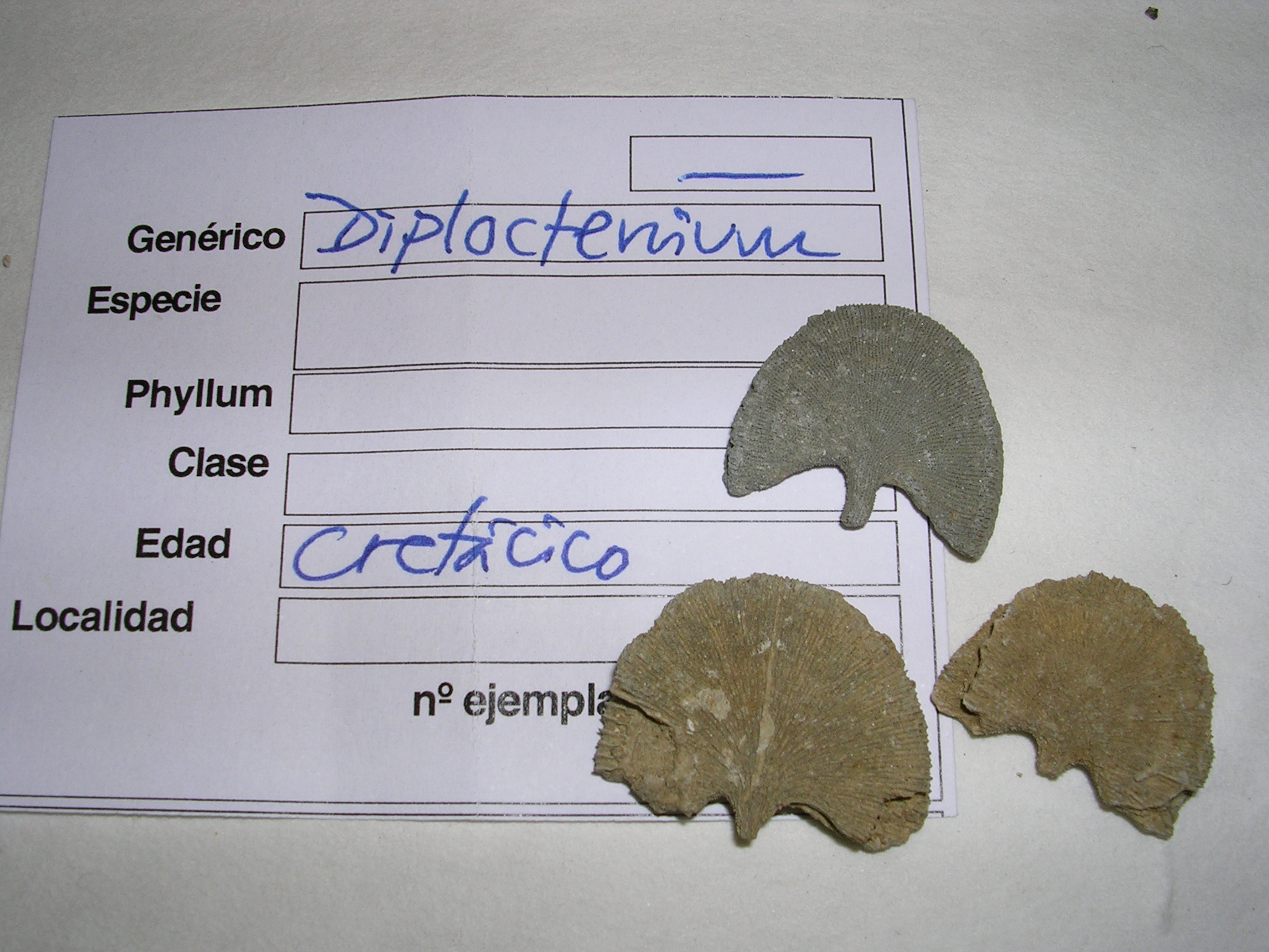 Diploctenium sp. fossil in a laboratory of practices of the Faculty of Sciences of the University of Corunna.